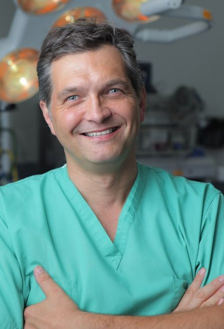 Neurosurgeon Roger Hartl, in the OR at Weill Cornell Medical Center